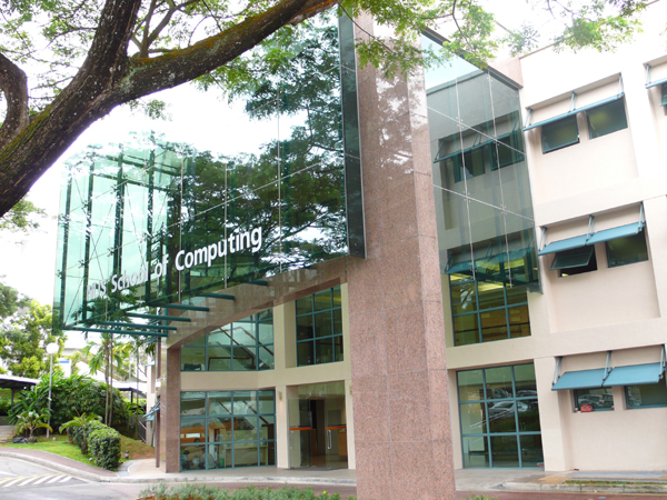 Picture of NUS SoC COM1